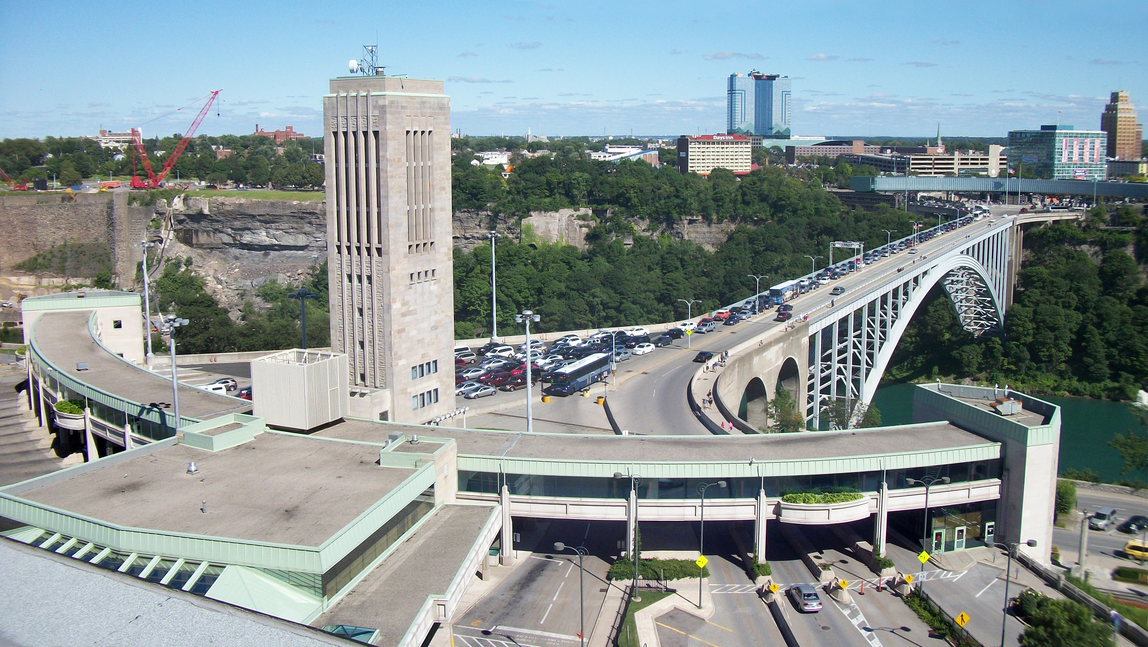 Rainbow (international) Bridge, Niagara Falls, from Crowne Plaza Hotel, Canadian side of the Niagara River